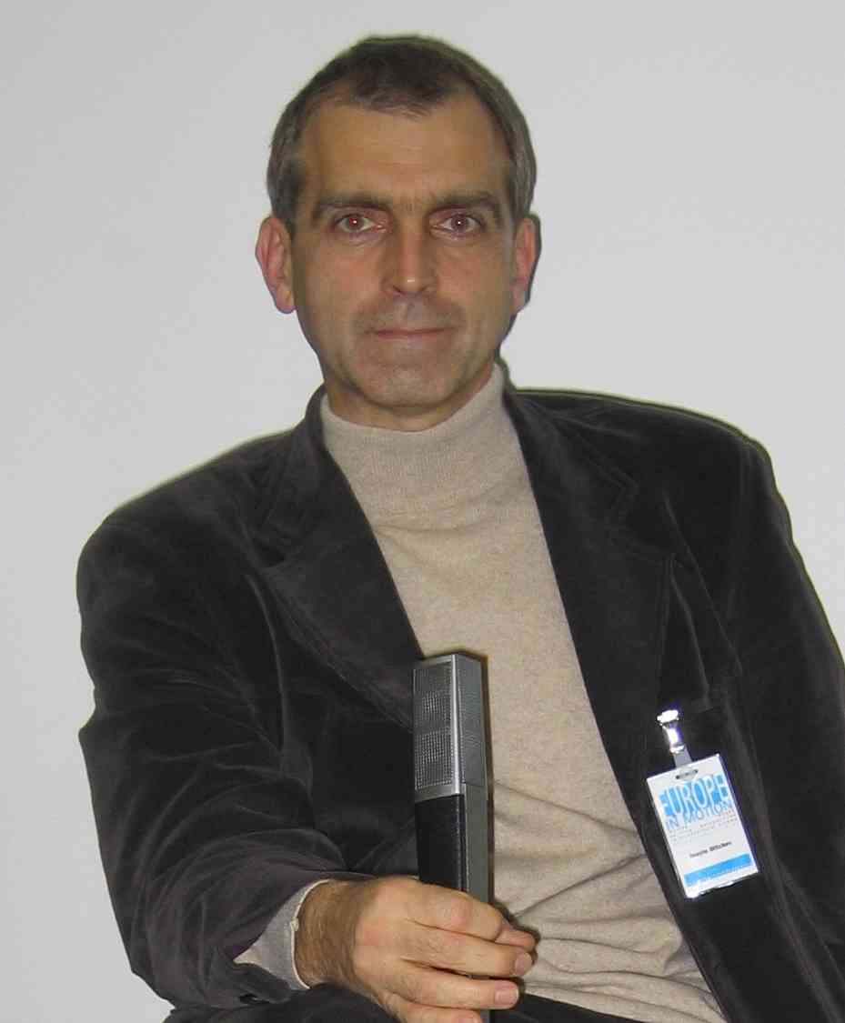 I, the creator of this work, hereby grant the permission to copy, distribute and/or modify this document under the terms of the GNU Free Documentation License, Version 1.2 or any later version published by the Free Software Foundation; with no Invariant Sections, no Front-Cover Texts, and no Back-Cover Texts. Subject to disclaimers.